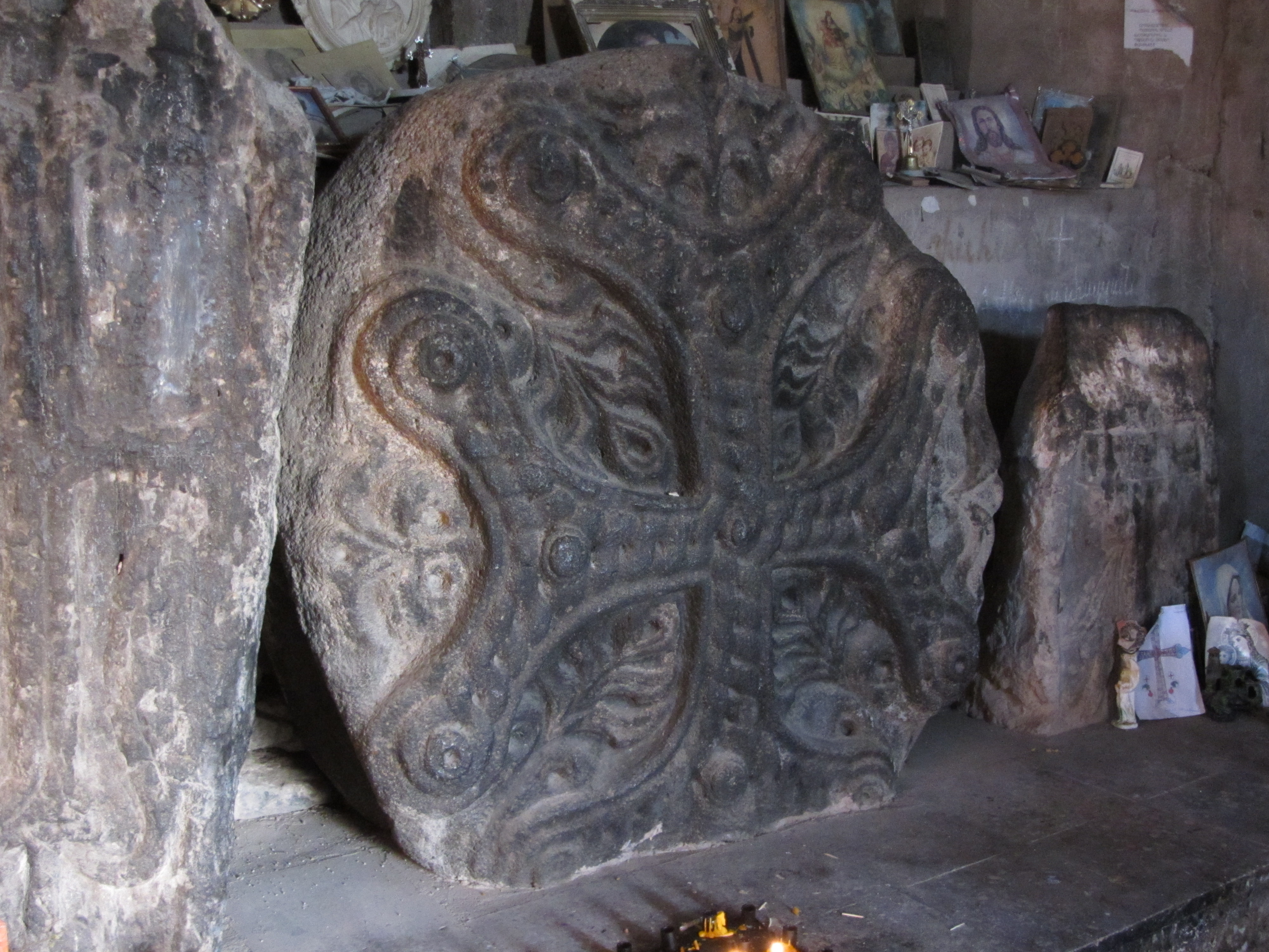 Famous Unique round Cross-Stone of Talin (6c.), Kuys Sandukht (Holy Virgin Sandukht) Chapel, Talin, Armenia